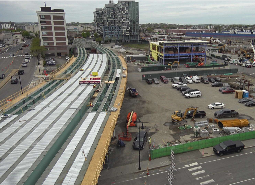 Aerial view of the construction of Lechmere station in May 2020